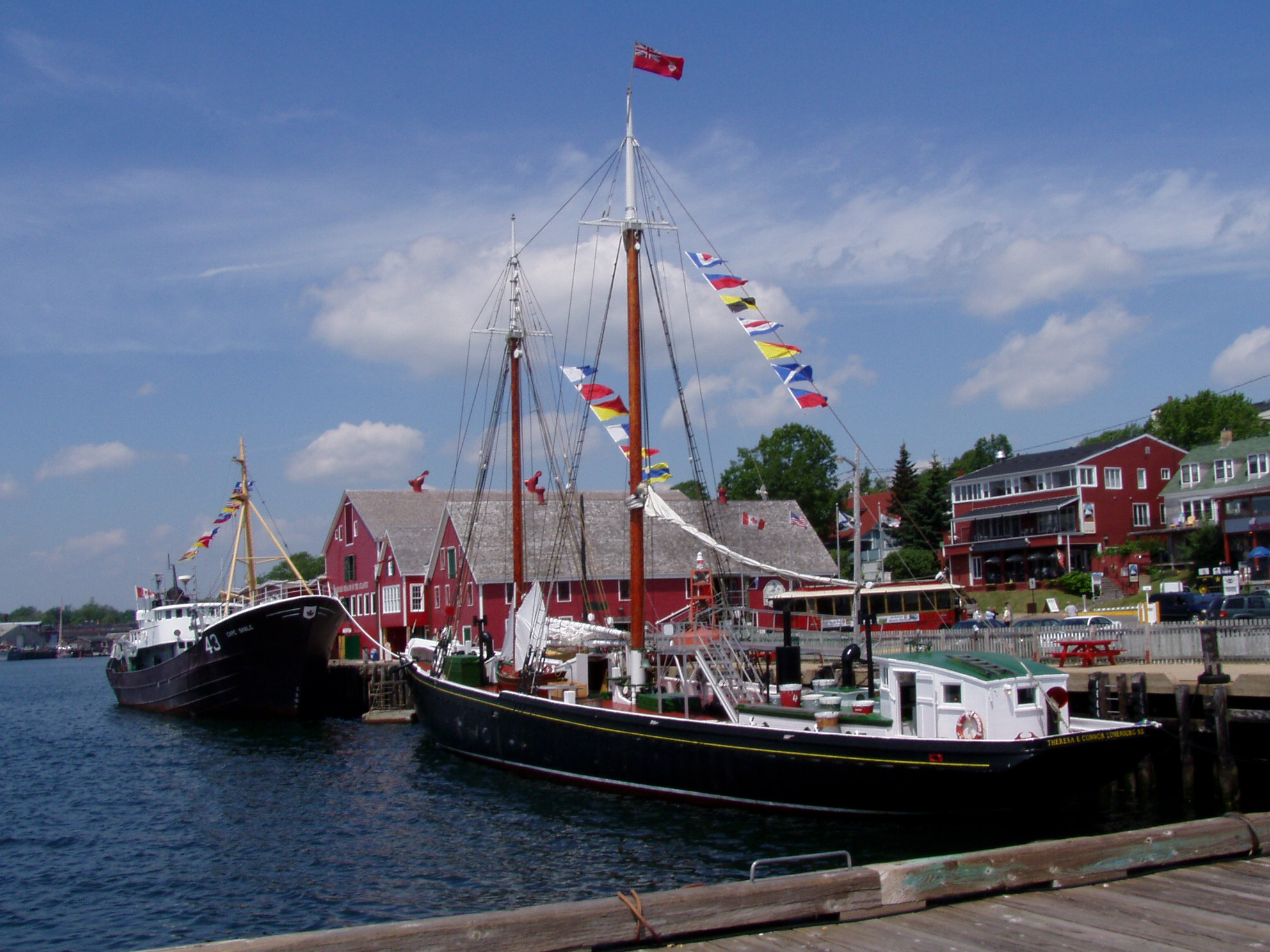 Fisheries Museum of the Atlantic, Lunenburg, Nova Scotia. Photo taken in July 2004 by myself, Danielle Langlois.